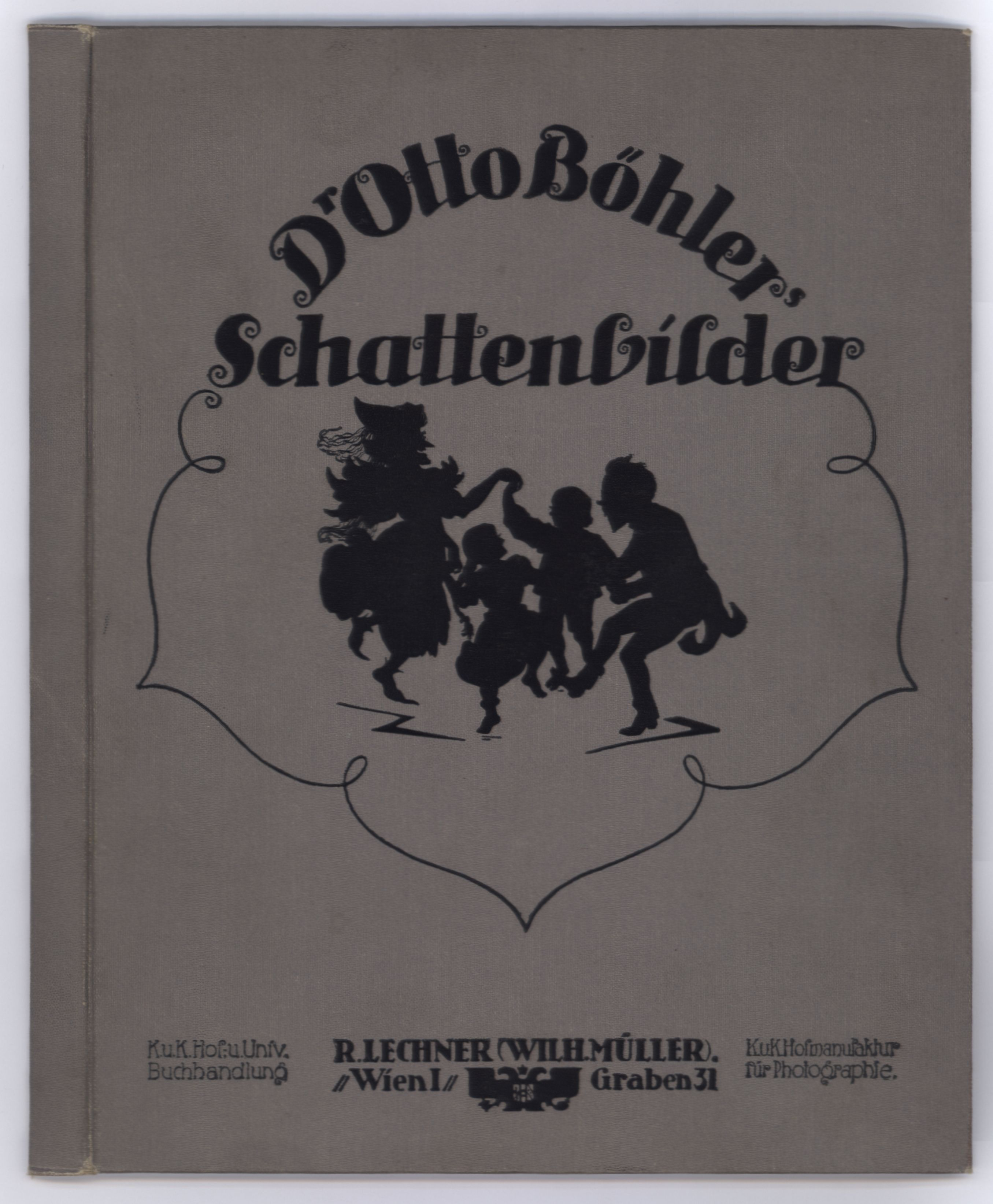 Front cover of the cloth folder of Dr. Otto Böhler's Schattenbilder